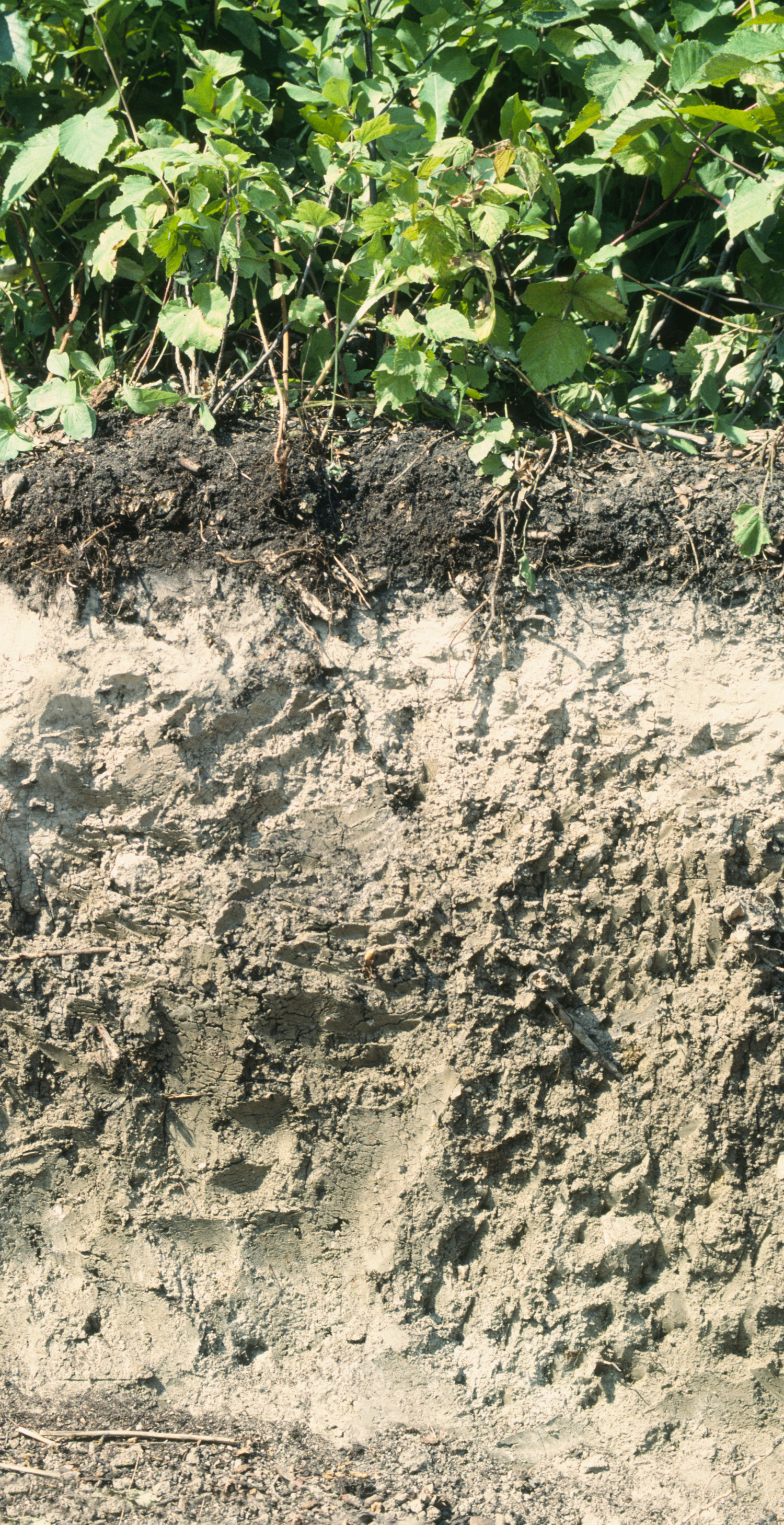 Soil profile (locality unknown, probably somewhere in the U.S.) representing the soil order ‘alfisol’ according to the USDA soil taxonomy